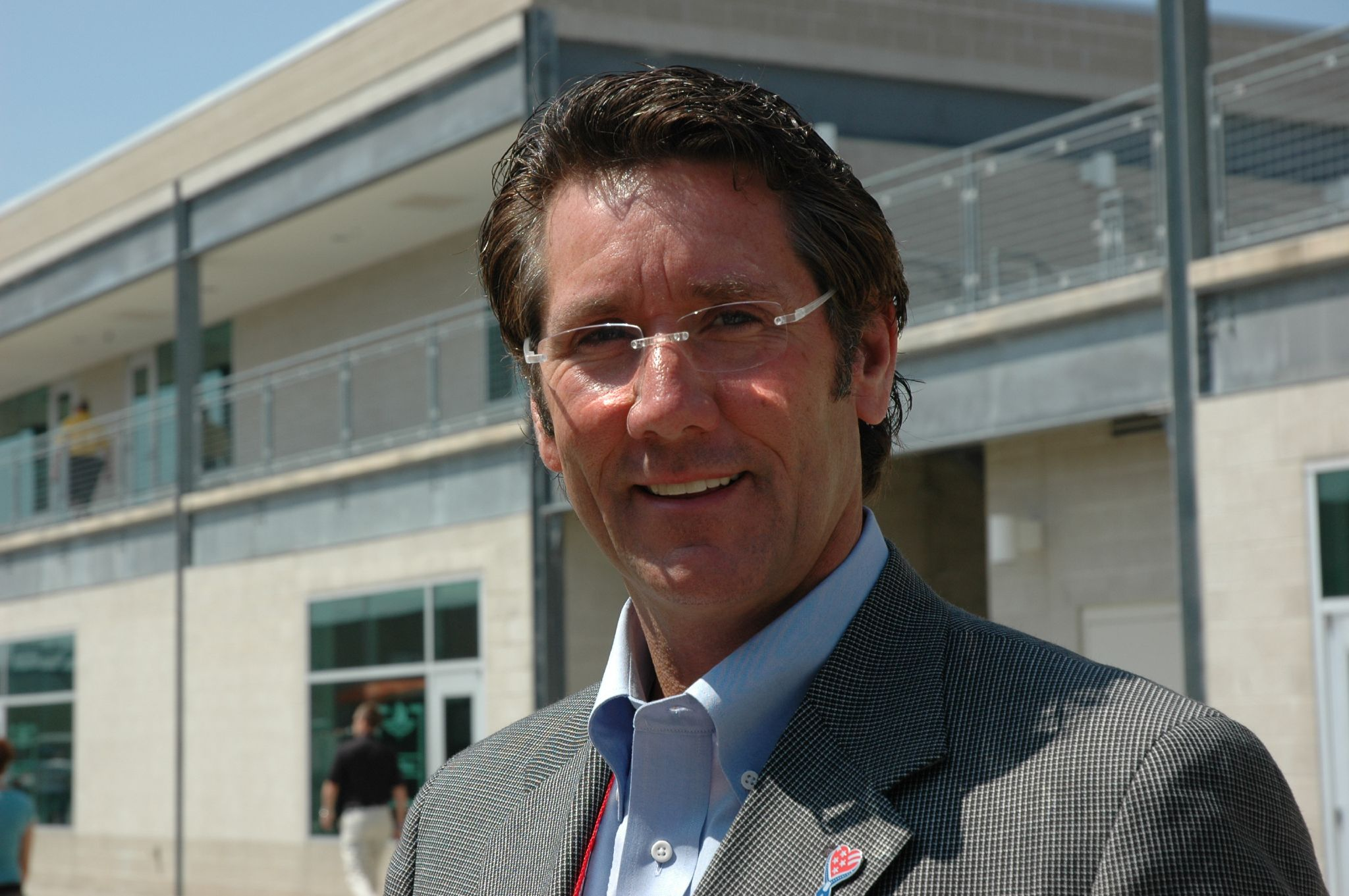 Indianapolis Motor Speedway owner Tony George